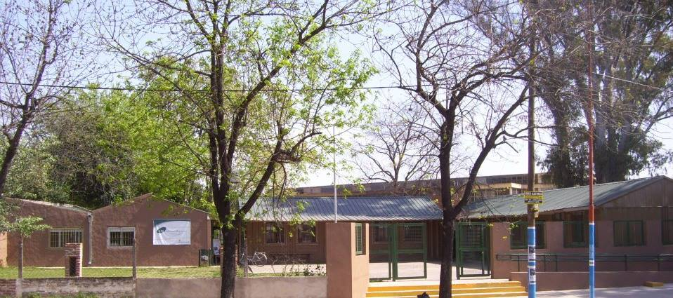 Frente 2011